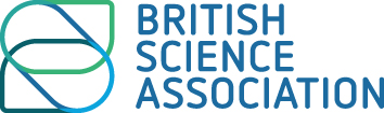 The new British Science Association logo launched in June 2017